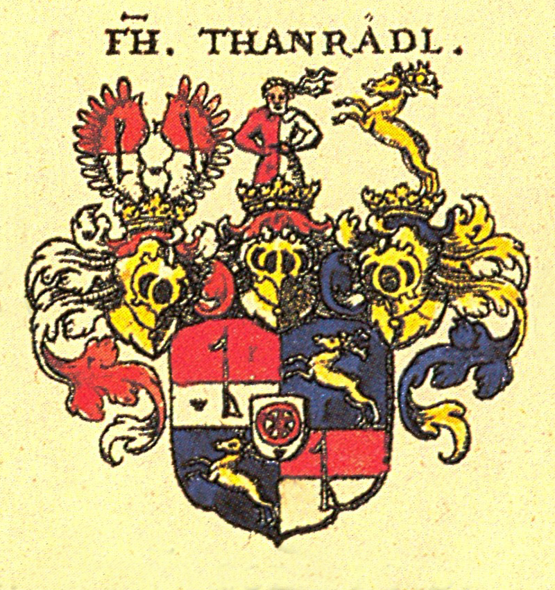 Coat of Arms of Thanraedl (Barons)